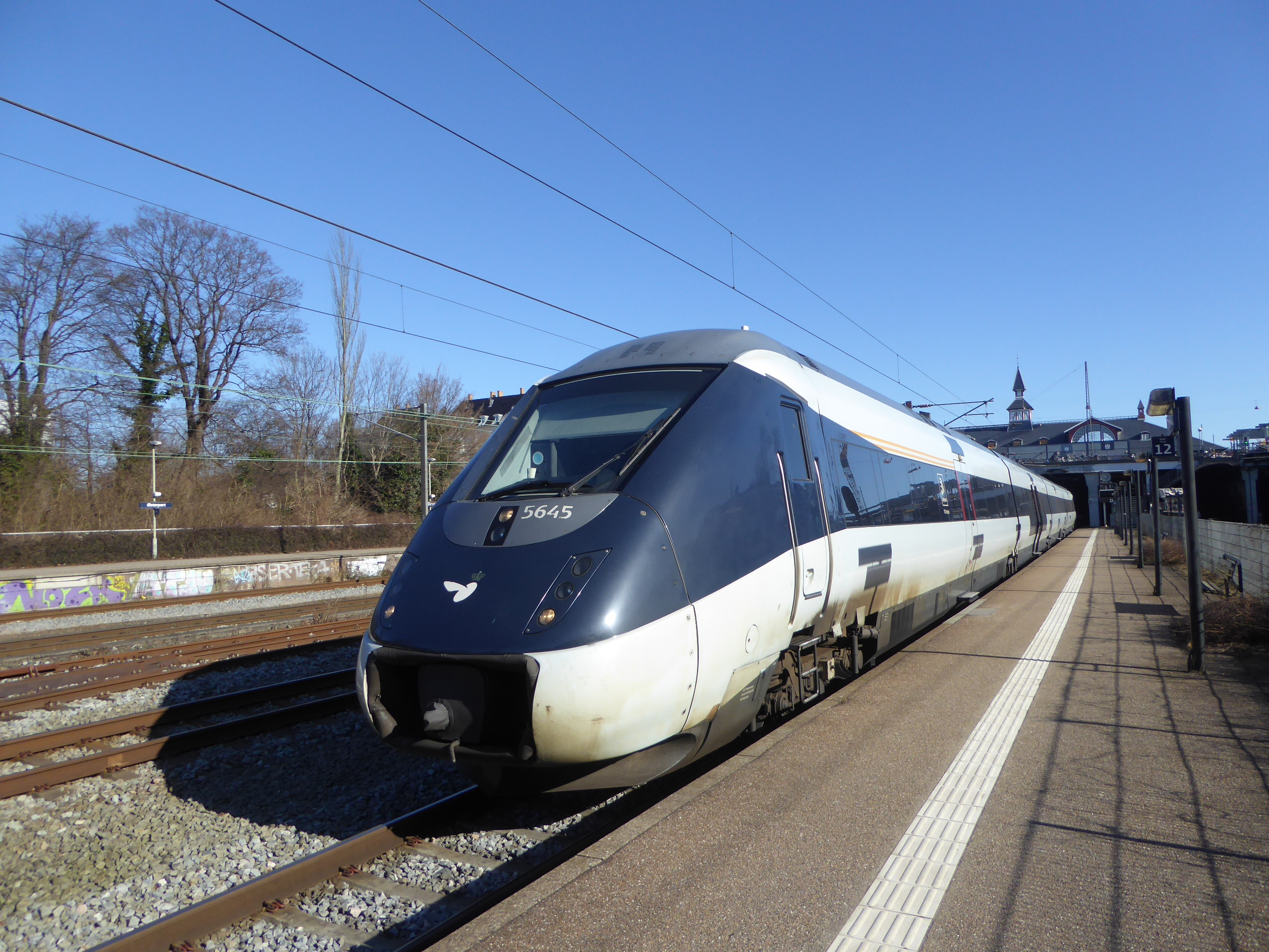 Diesel multiple unit DSB IC4 45 at Østerport Station in Copenhagen.